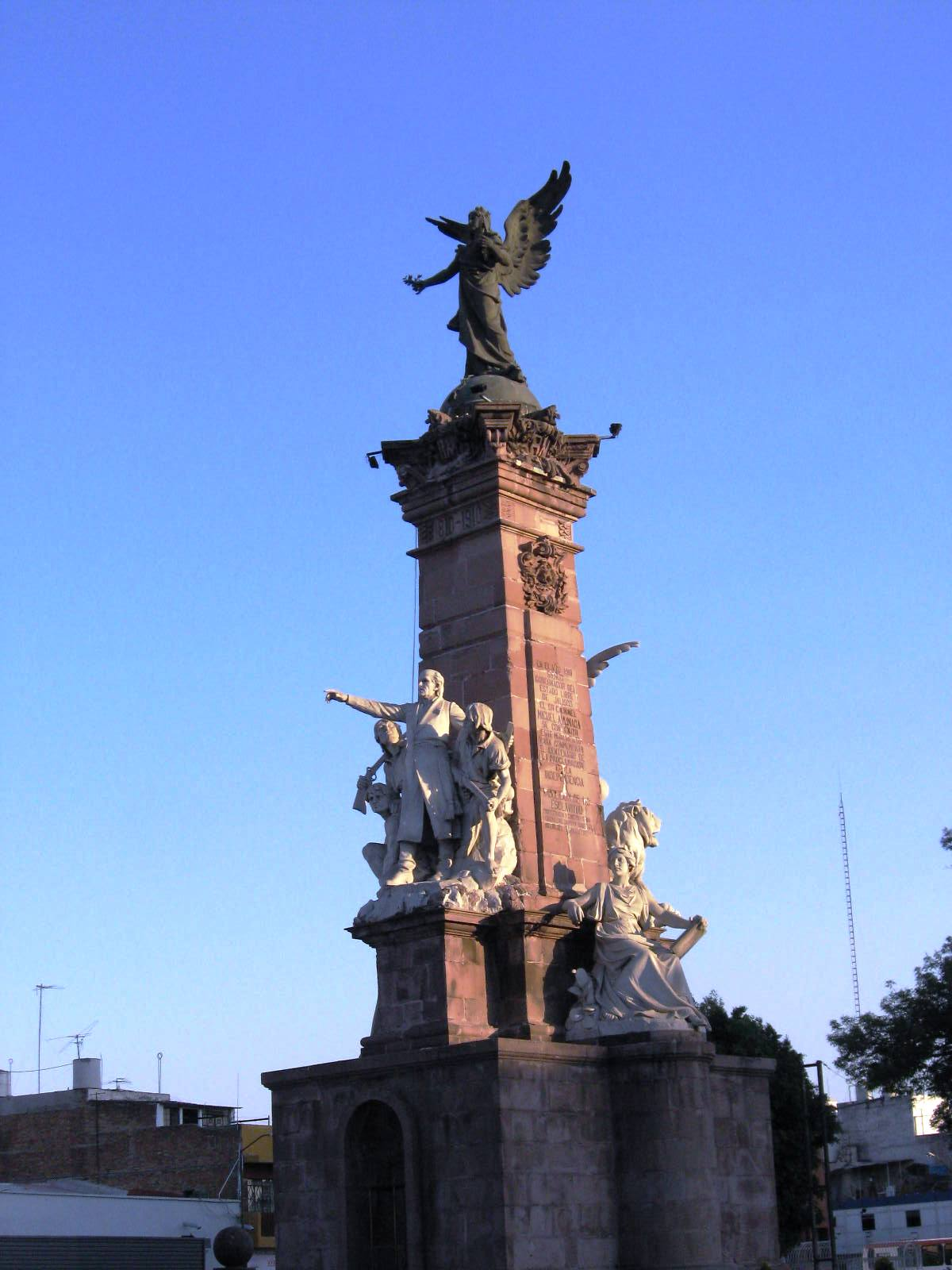 Statue dedicated to the independence of Mexico on Avenida Independencia in Guadalajara, Mexico